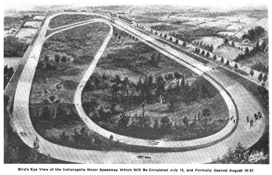 Indianpolis Motor Speedway before the grand opening - June 1909